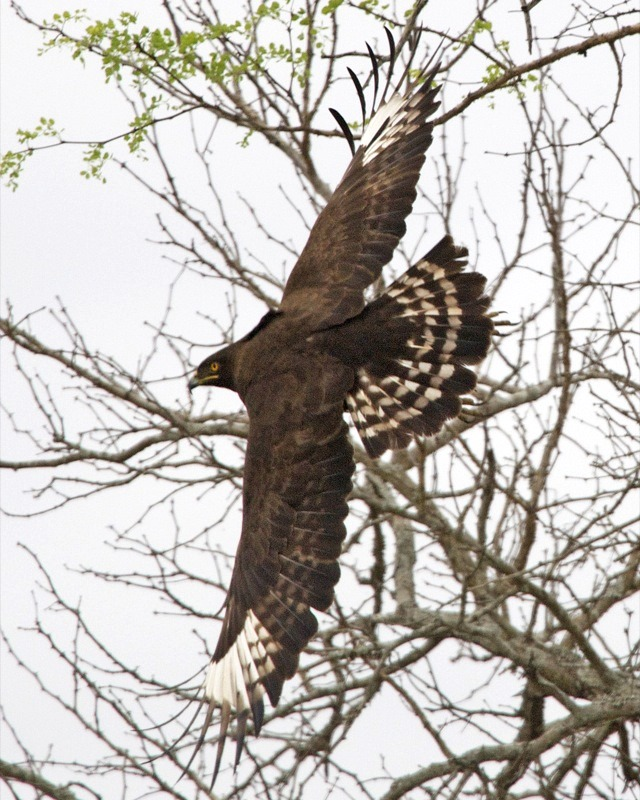 Long-crested eagle Kwa Madwala, Mpumalanga, South Africa, on 9th. October 2009 Range map: [1]